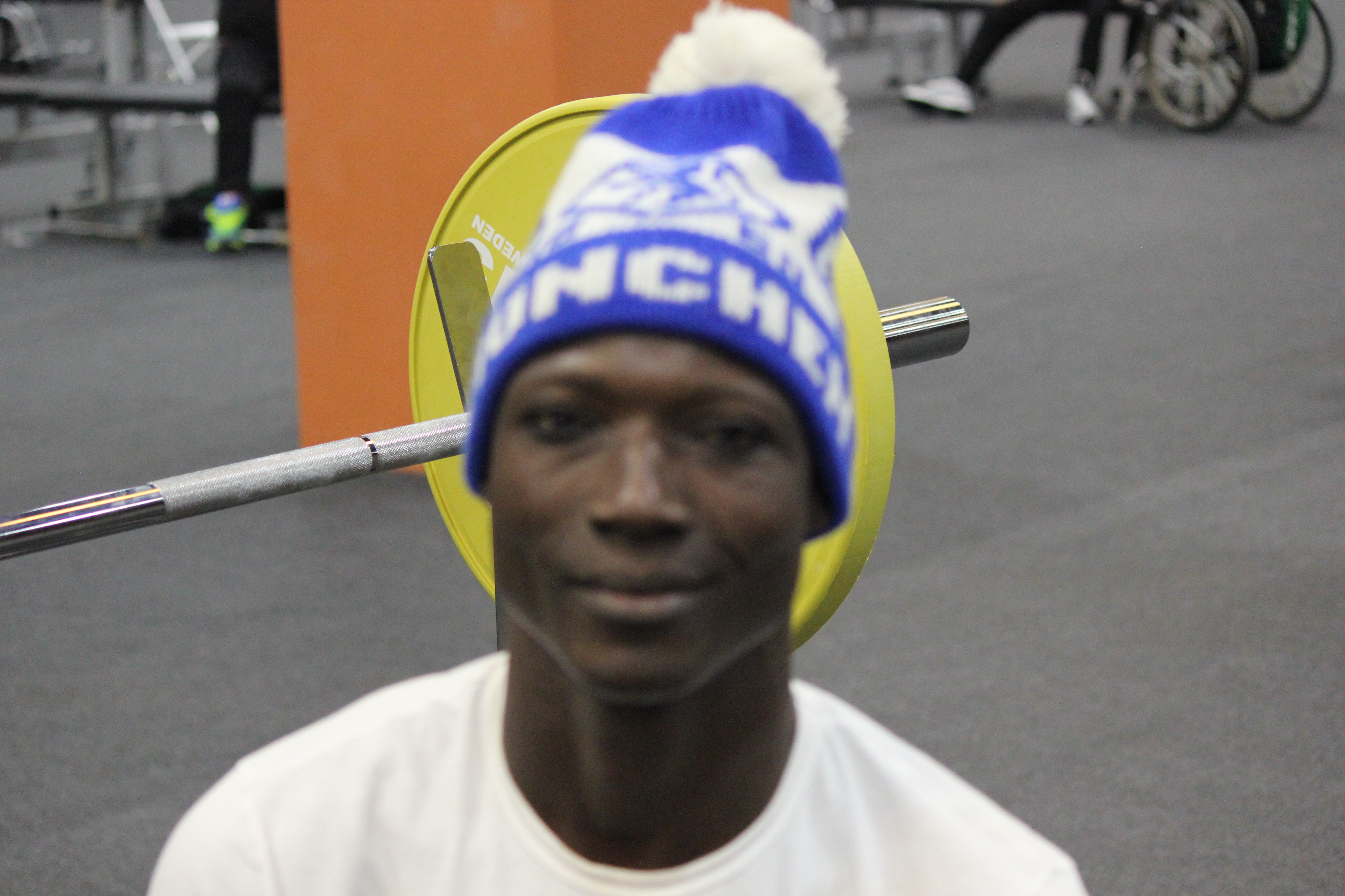 The powerlifter from Togo, Aliou Bawa. He is Togo's only representative at the 2016 Summer Paralympics.